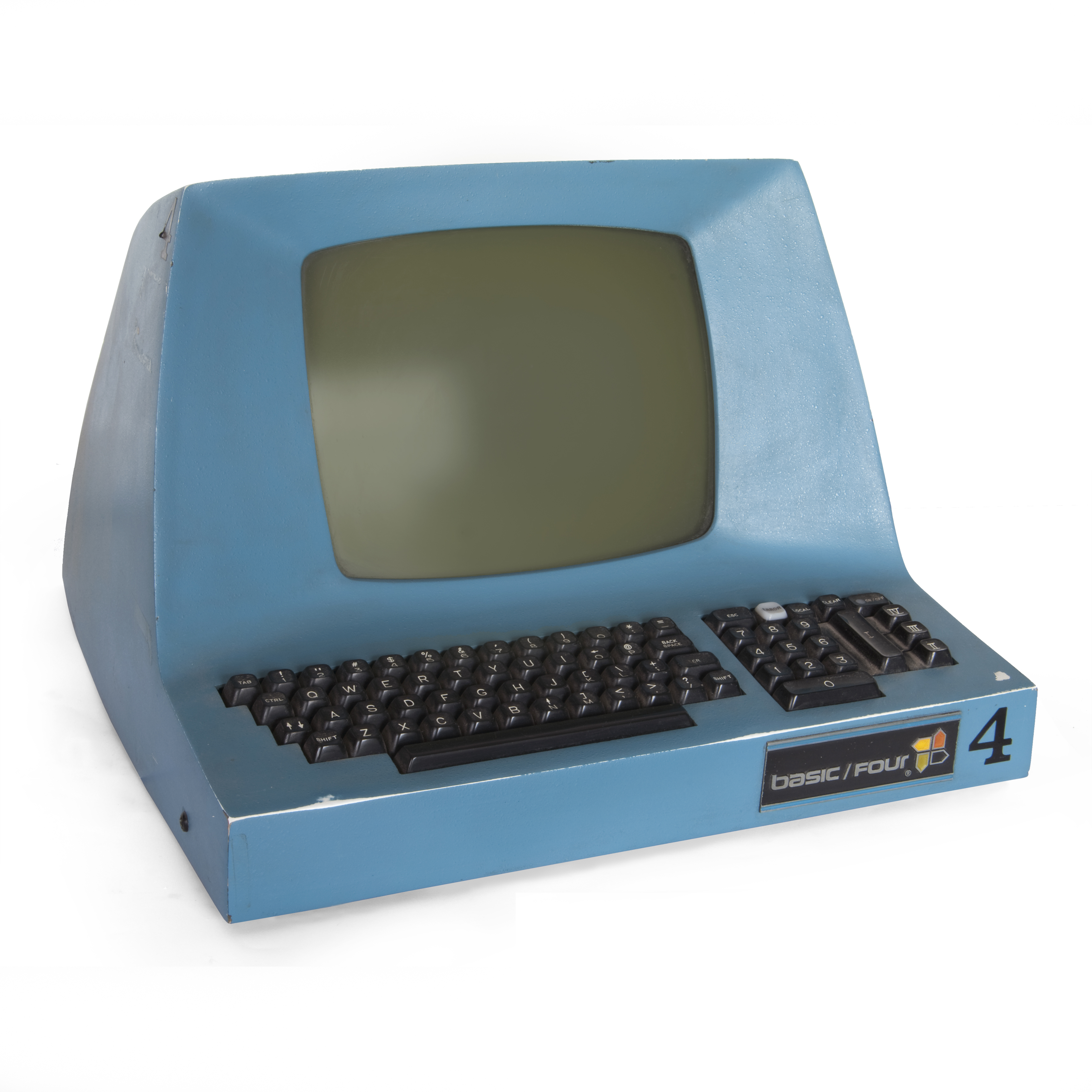 MAI Basic Four minicomputer terminal. From the University of South Australia collection.